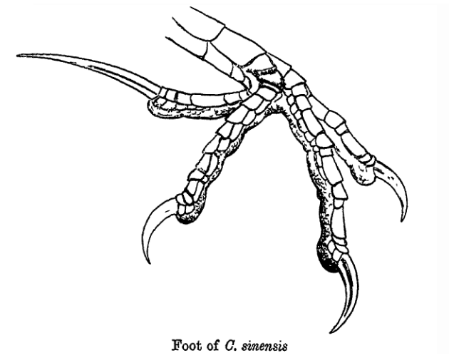 Foot of Centropus sinensis (Greater Coucal)